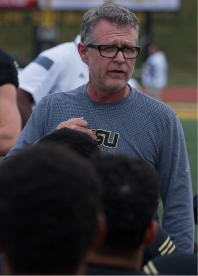 Emporia State Head Football Coach, Garin Higgins, talking to his players after their win against the Missouri Western Griffons.